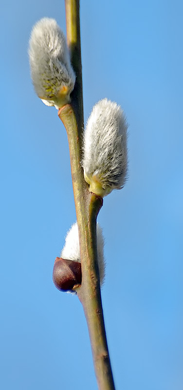 This image shows three Willow catkins.